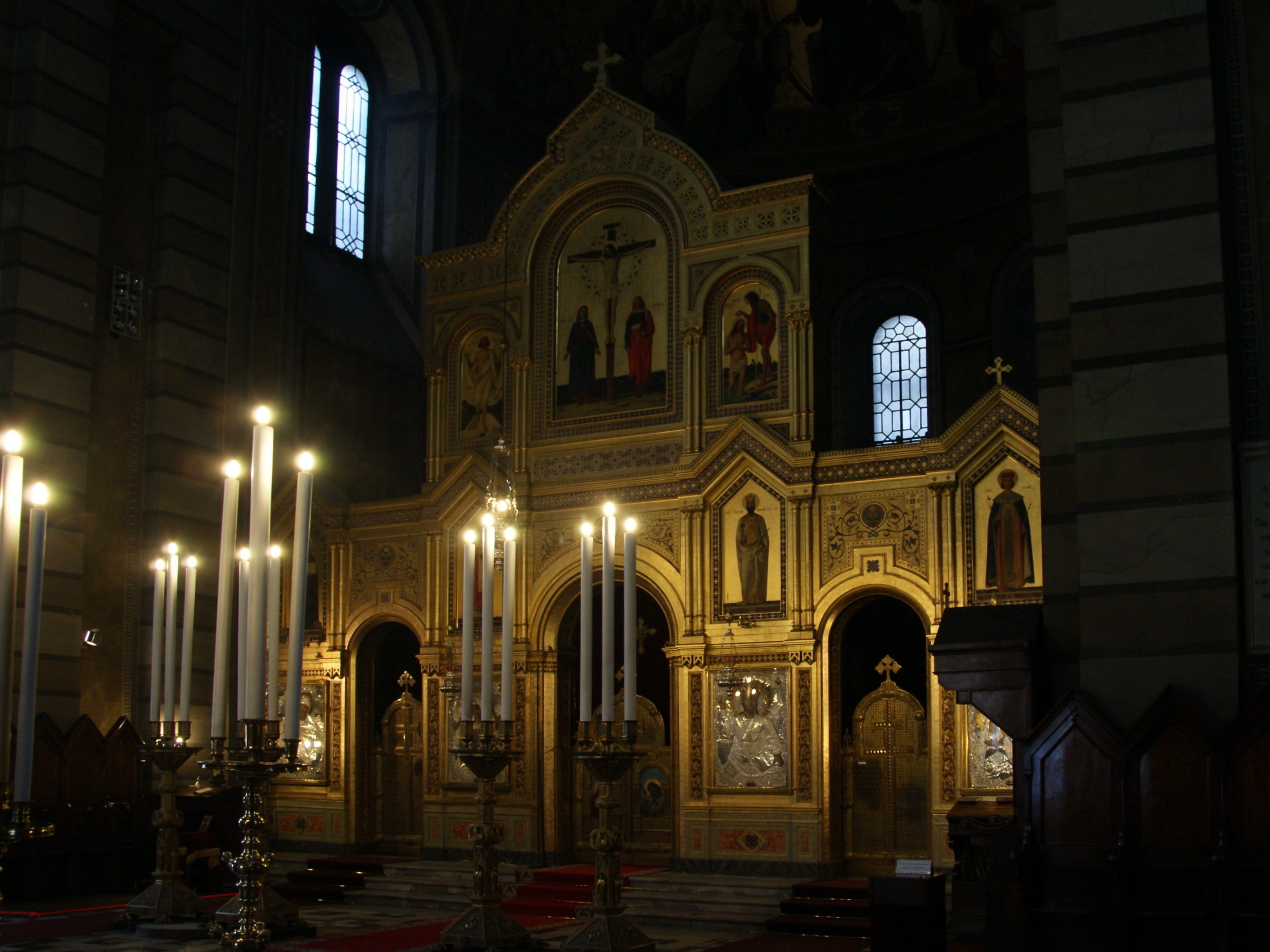 Interior of Serbian-orthodox church of San Spiridione, Trieste